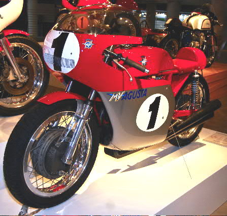 MV Agusta 500 Thee Cylinder